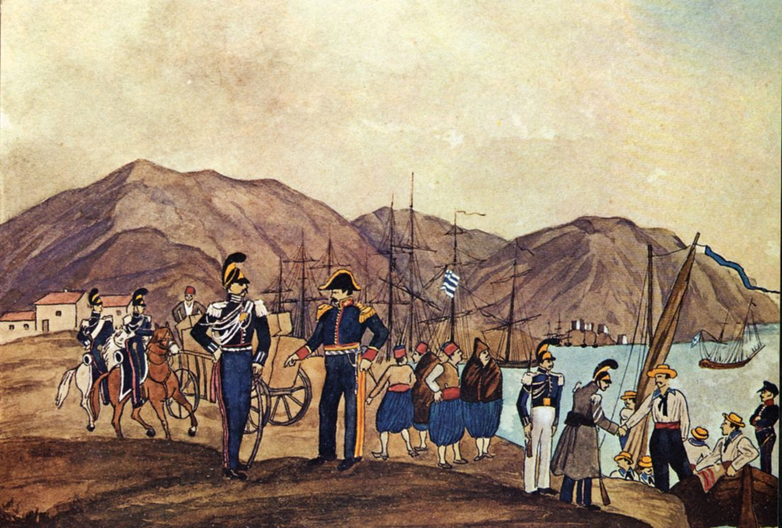 Gendarmes and sailors in the Greek port of Chalkis, in the 1830s. Watercolor by the Bavarian captain Ludwig Köllnberger. Original title: Gendarmerie und Marine auf Negroponte.